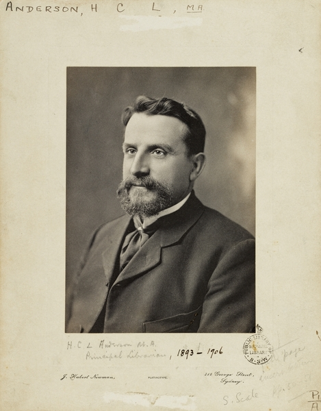 Studio portrait of Henry Charles Lennox Anderson / photographed by J. Hubert Newman SLNSW ID=84542